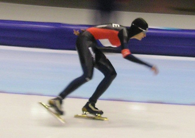 Martina Sáblíková (CZE) at a World Cup in Thialf (Heerenveen, The Netherlands)